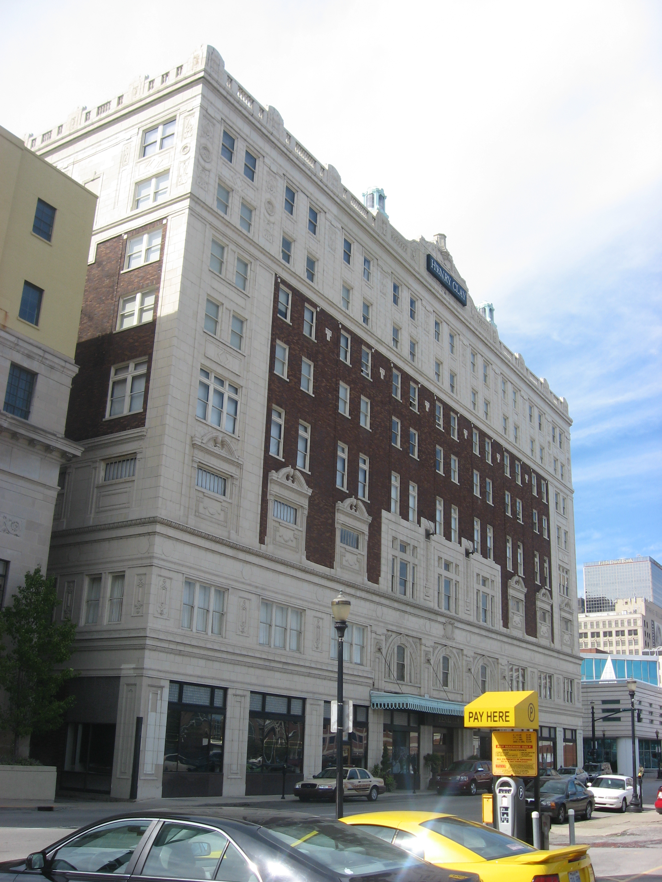 Front of the Elks Athletic Club, located at 604 S. Third Street (Kentucky Route 1020) in Louisville, Kentucky, United States. Built in 1924, it is listed on the National Register of Historic Places.